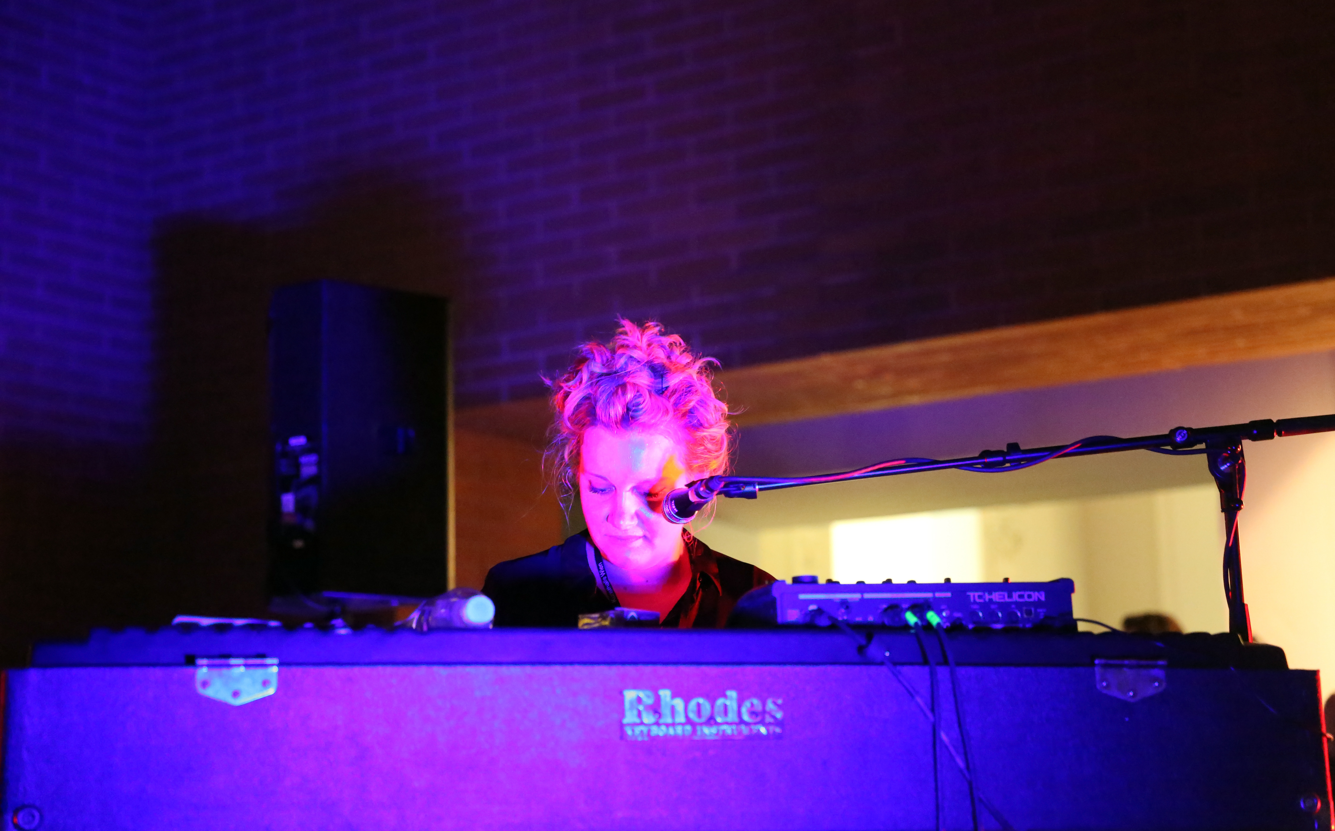 Anna Schauberger aka The Unused Word, concert at MuseumsQuartier during Popfest 2014 in Vienna, Austria.